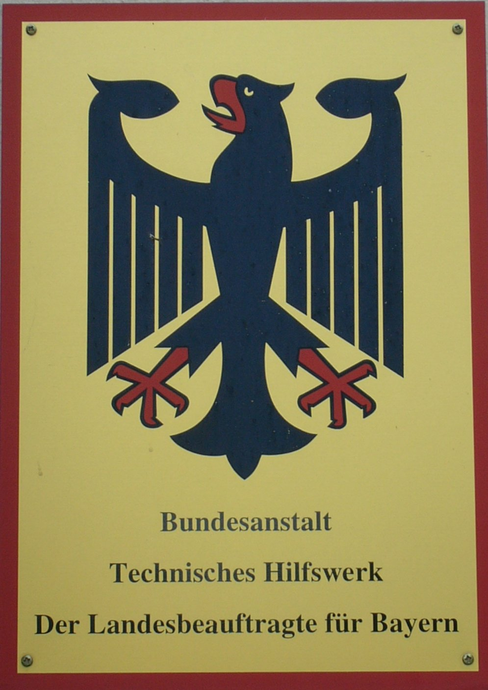 Official sign of the German Bundesanstalt Technisches Hilfswerk — Envoy for the State of Bavaria (Der Landesbeauftragte für Bayern)